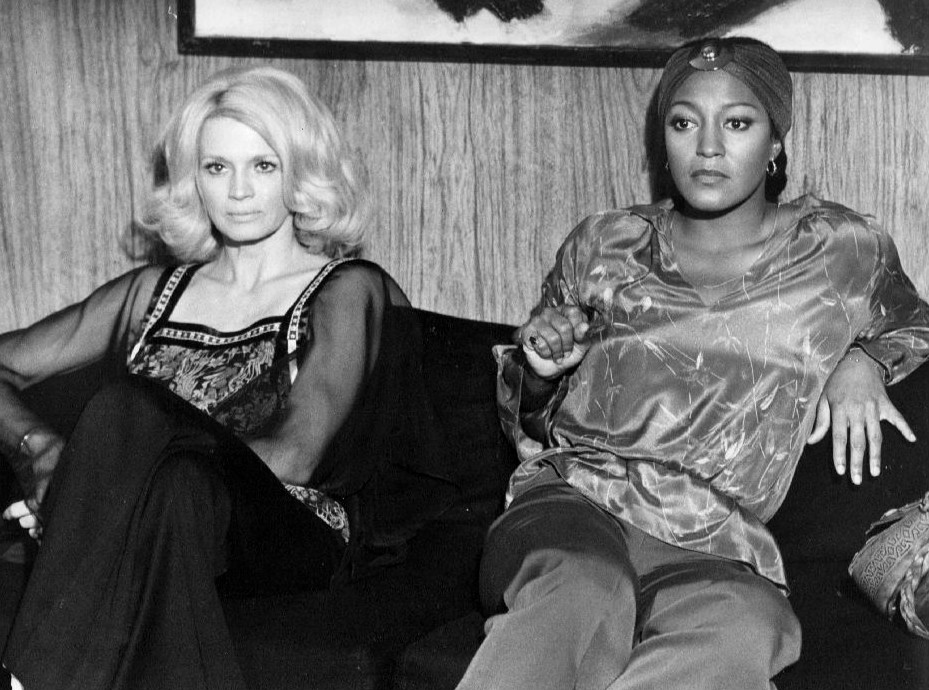 Photo of Angie Dickenson as Pepper Anderson and Paula Kelly from the TV series Police Woman. Dickenson and guest star Kelly, both police women, go undercover as prostitutes to try to learn more about a crime syndicate.